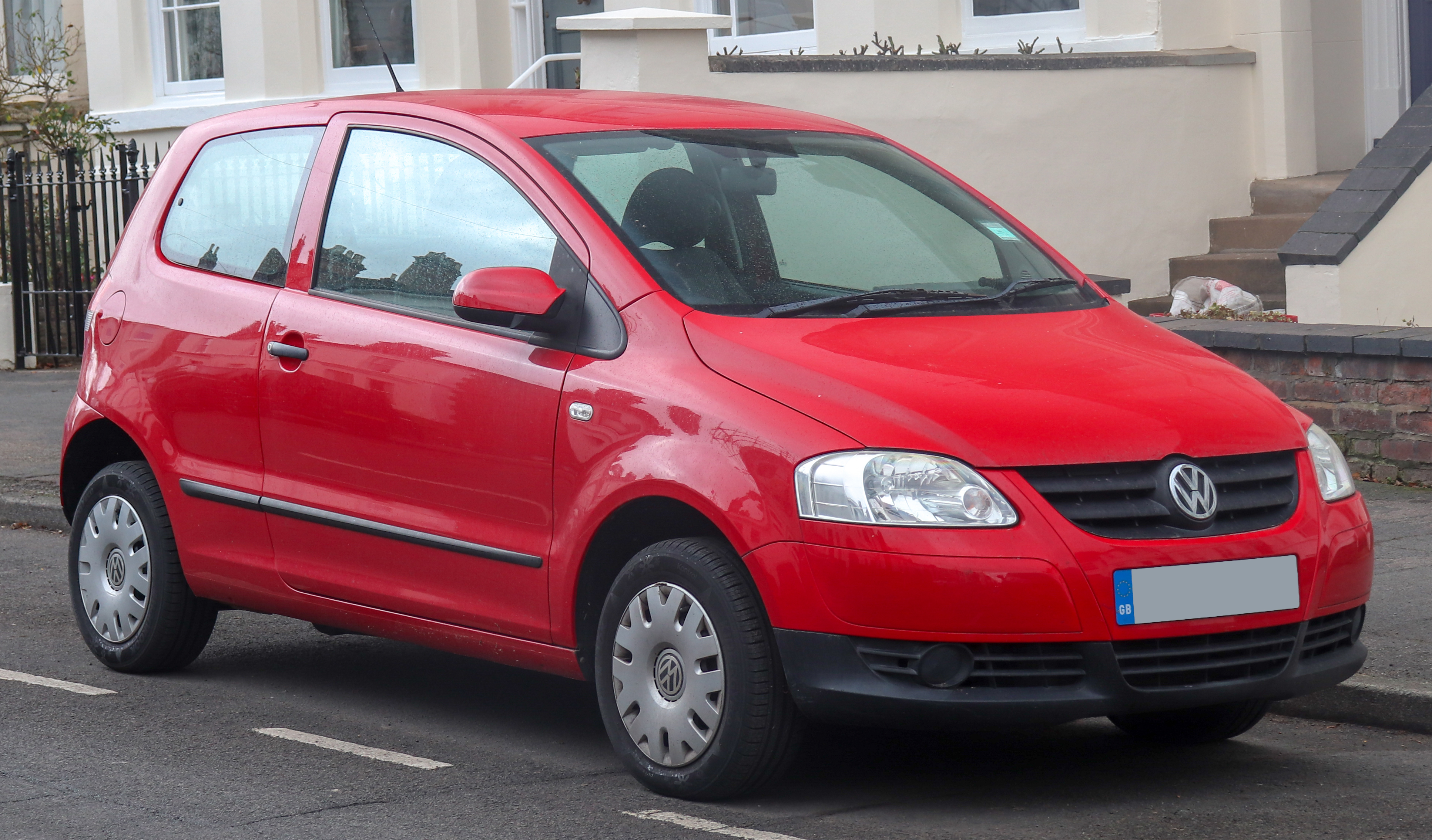 2008 Volkswagen Urban Fox 75 1.4 Front Taken in Leamington Spa